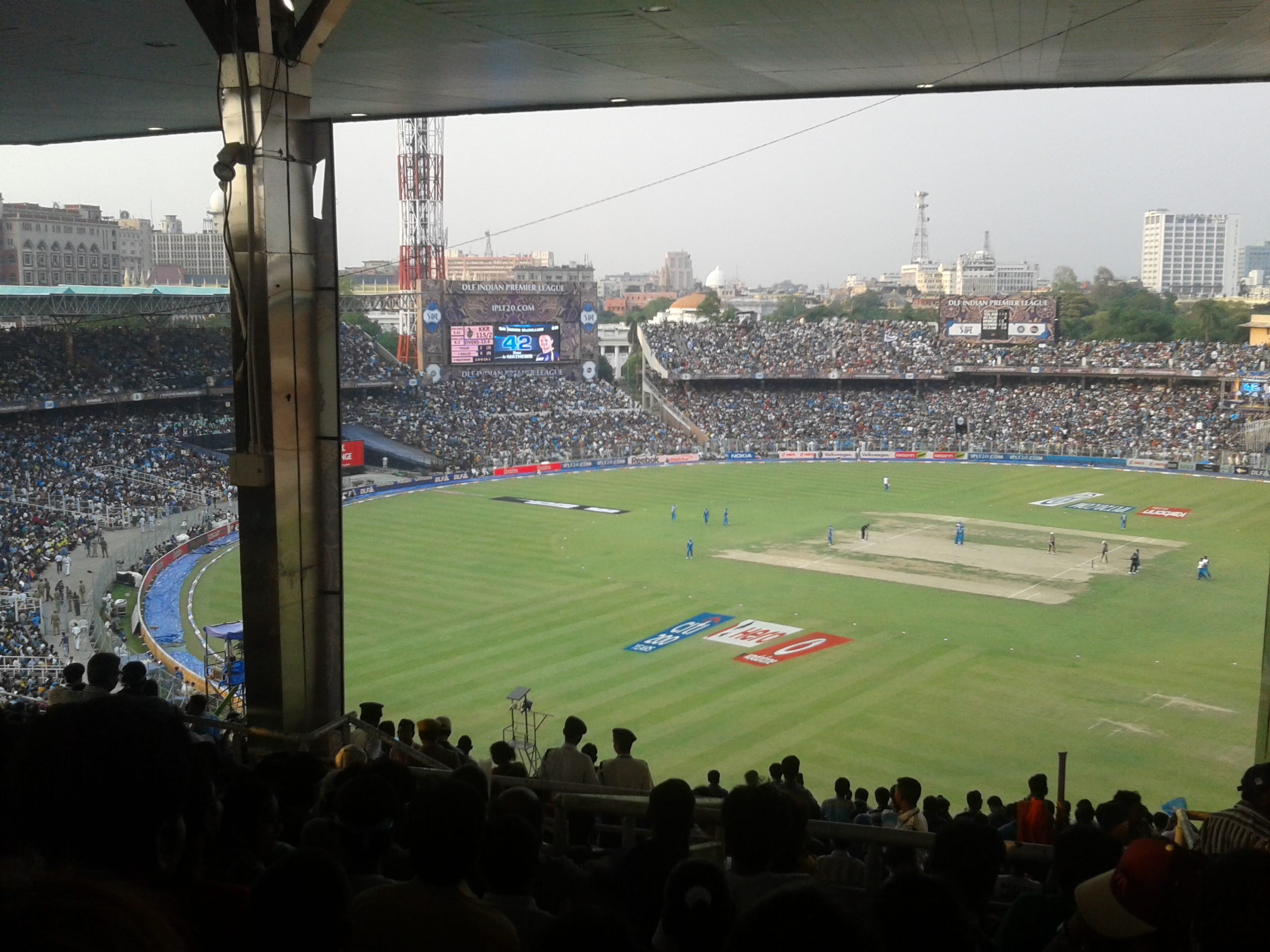 KKR vs PUNE WARRIORS 5th May 2012